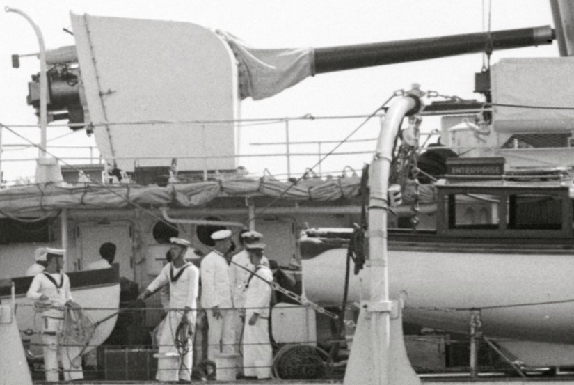 Photograph shwowing single BL 6-inch Mk XII gun on CP Mk XIV mounting, on British cruiser HMS Enterprise, docked in Haifa.